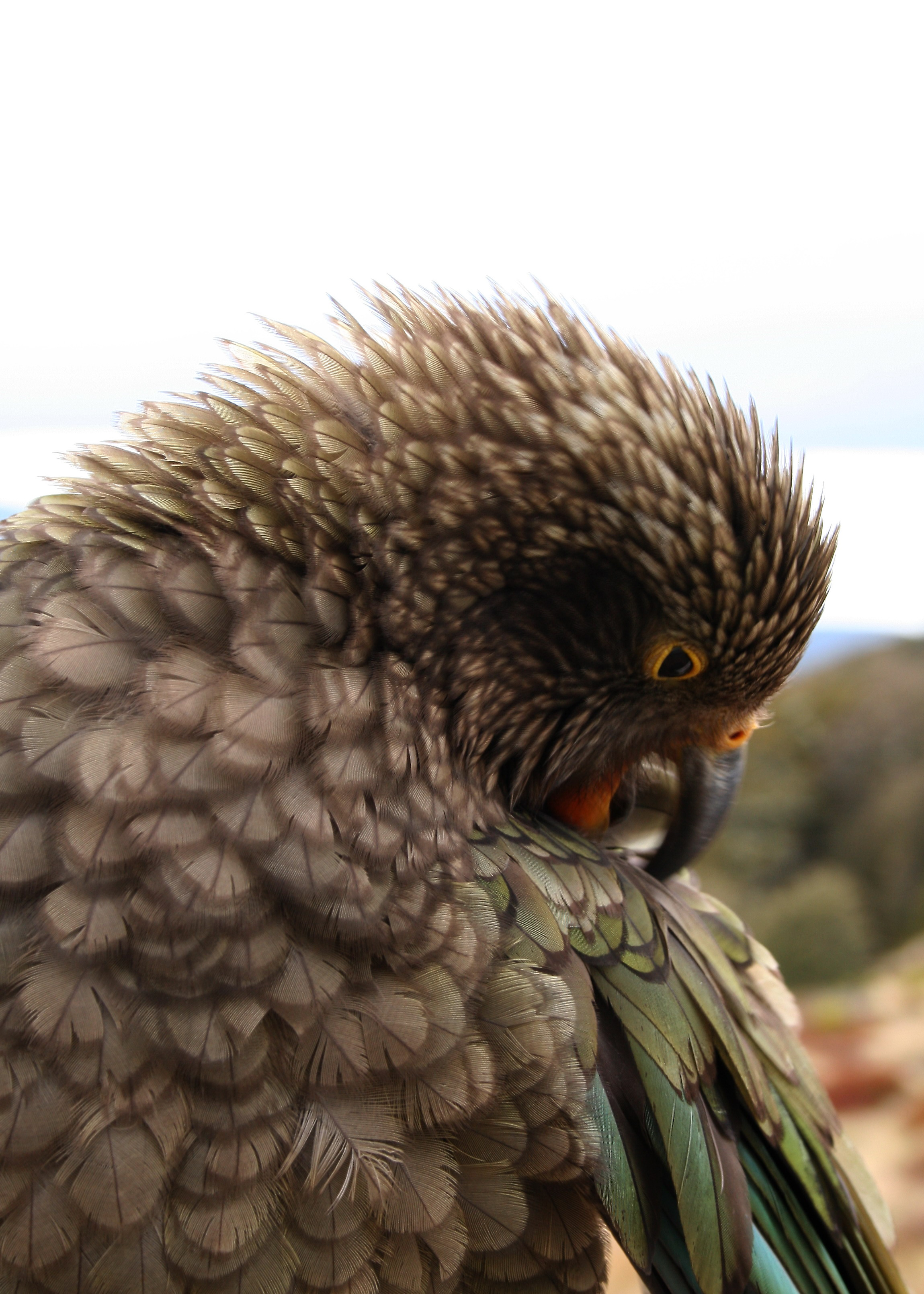 Kea, Nestor notabilis